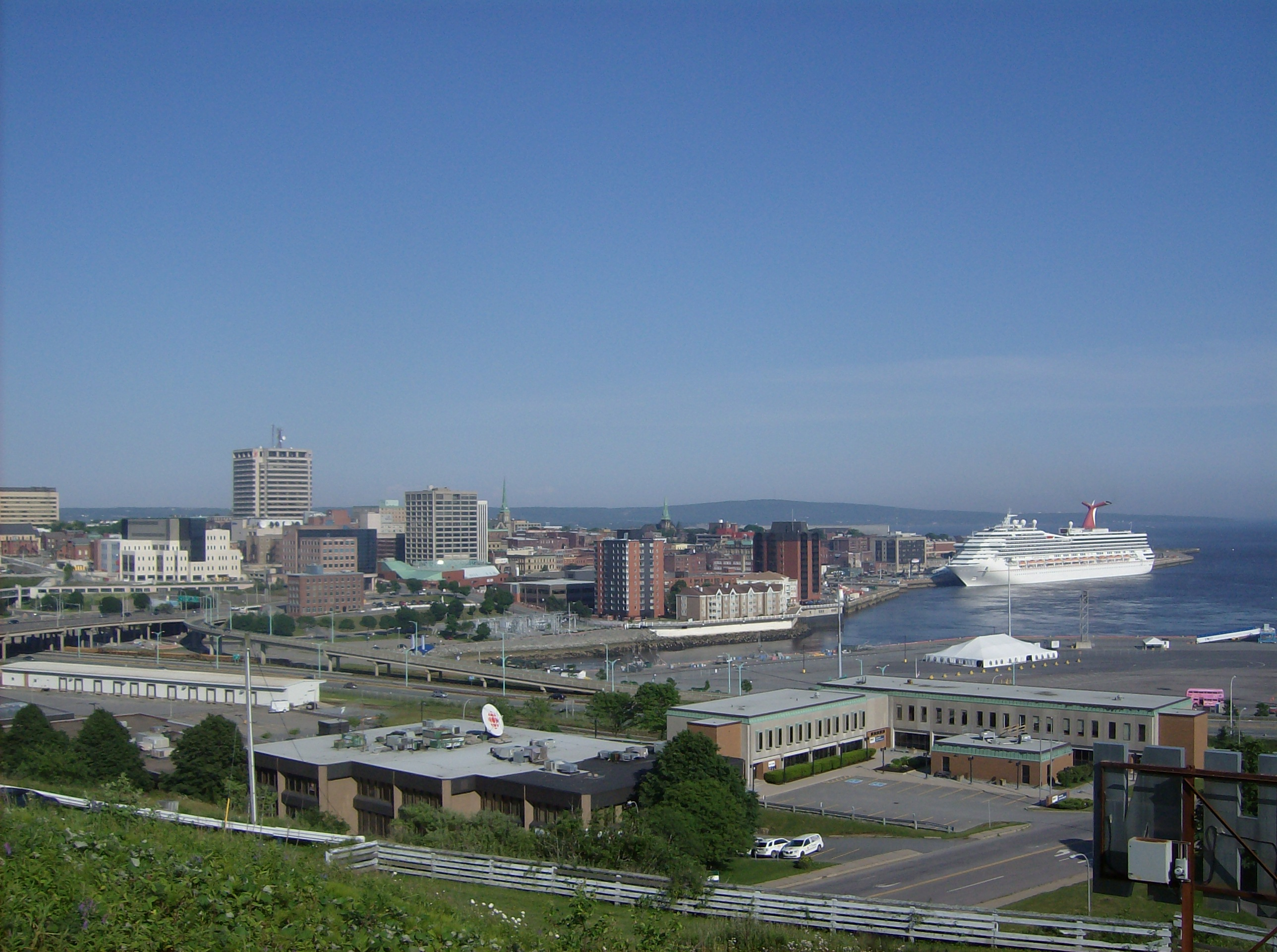 Carnival Cruise Ship, Saint John NB Harbour